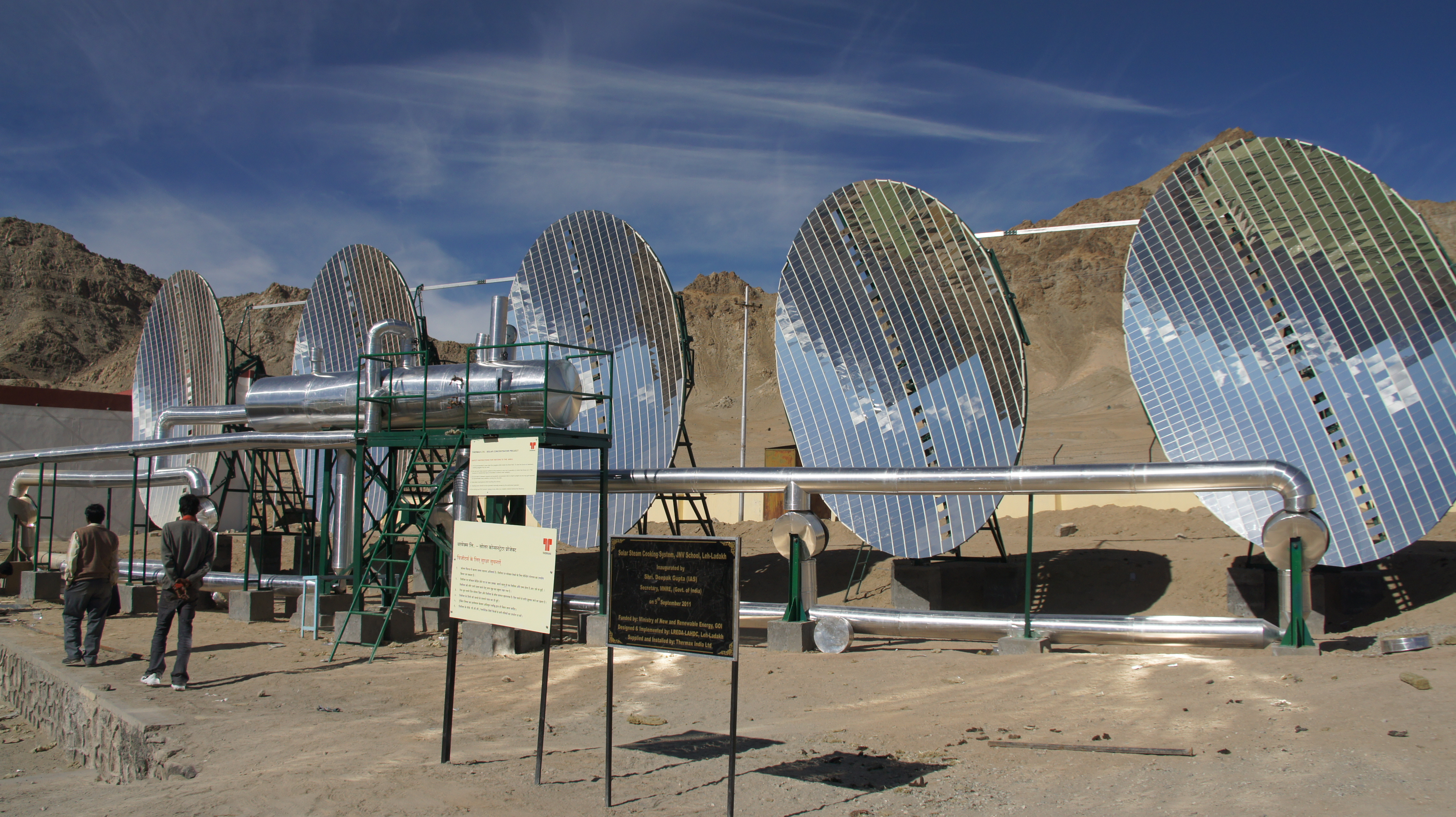 Scheffler Cooker (solar cooker) at Jawahar Navodaya Vidyalaya school, Leh, Ladakh, Jammu and Kashmir, India